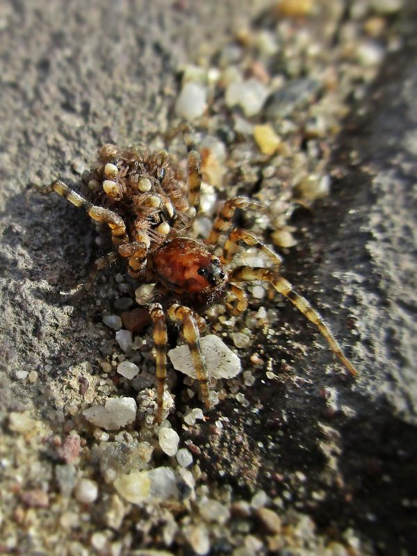 Arctosa perita (Lycosidae sp.), Arnhem, the Netherlands